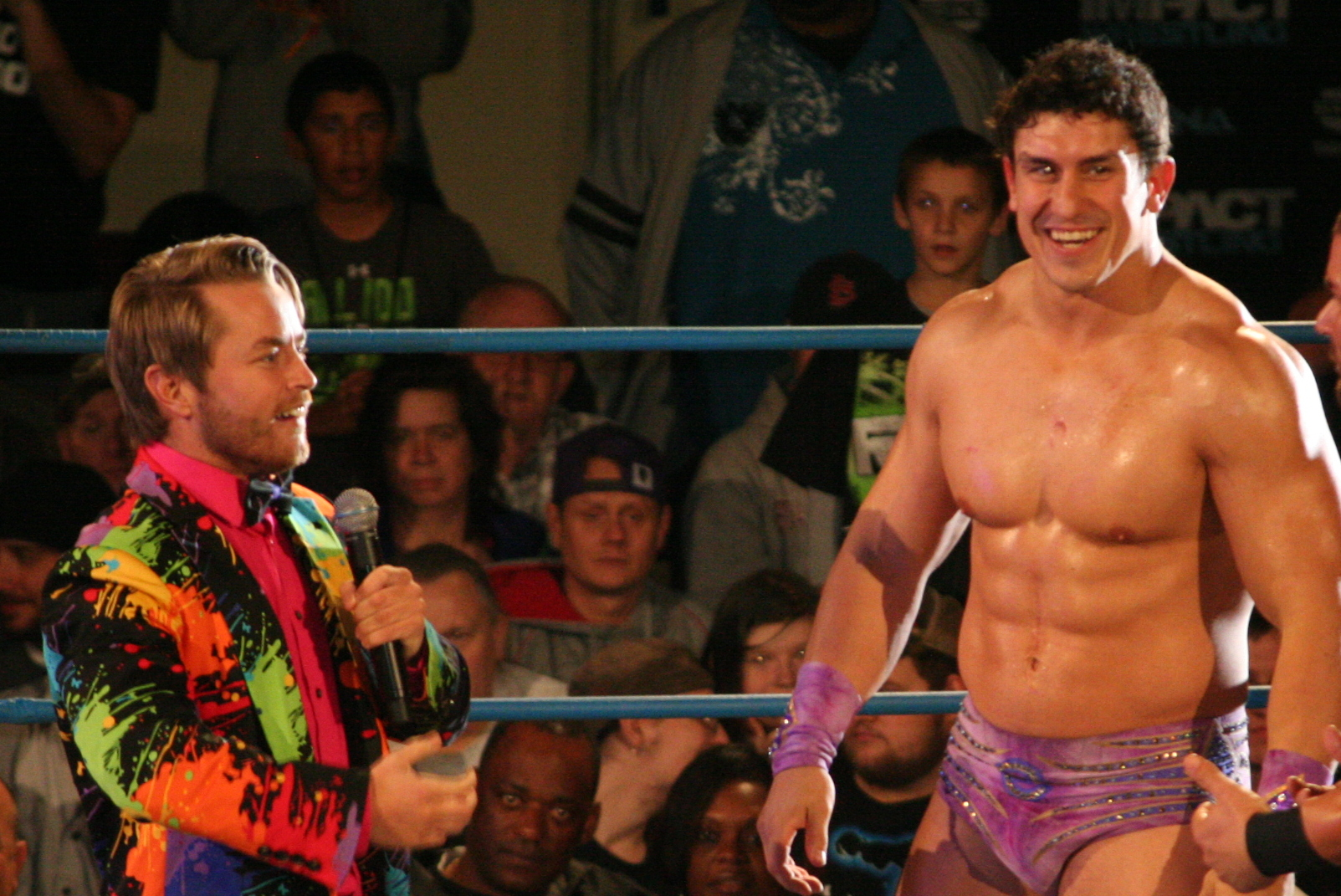 Ethan Carter III (right) and Rockstar Spud (left) at a TNA show in April 2014. Cropped from original.